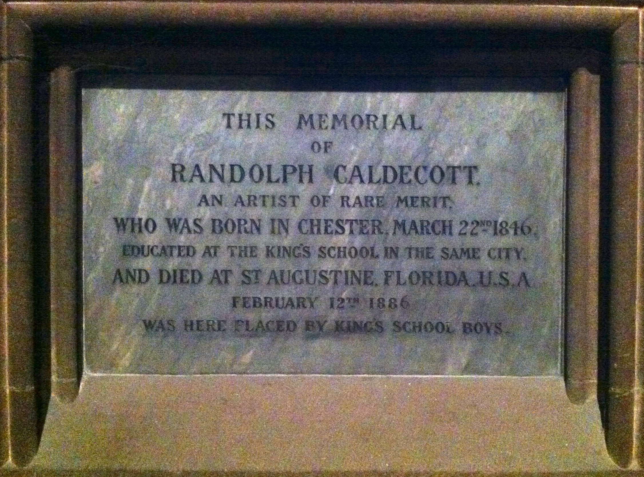 Artist. Born 22 March 1846 in Chester. Died 12 February 1886 in Florida, USA.